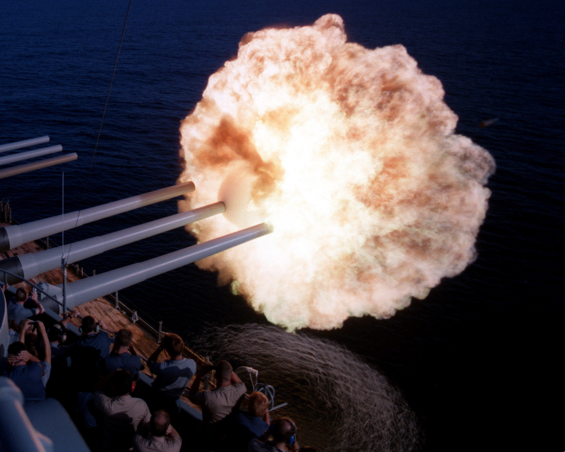 330-CFD-DN-SC-87-03282: A round is fired from the No. 2 Mark 7 16-inch/50 caliber gun turret during gunnery exercises aboard the battleship USS Iowa (BB 61). A projectile is visible at the edge of the burst, 8/1/1985 PH1 Jeff Hilton, USN. (OPA-NARA II-2016/01/07).